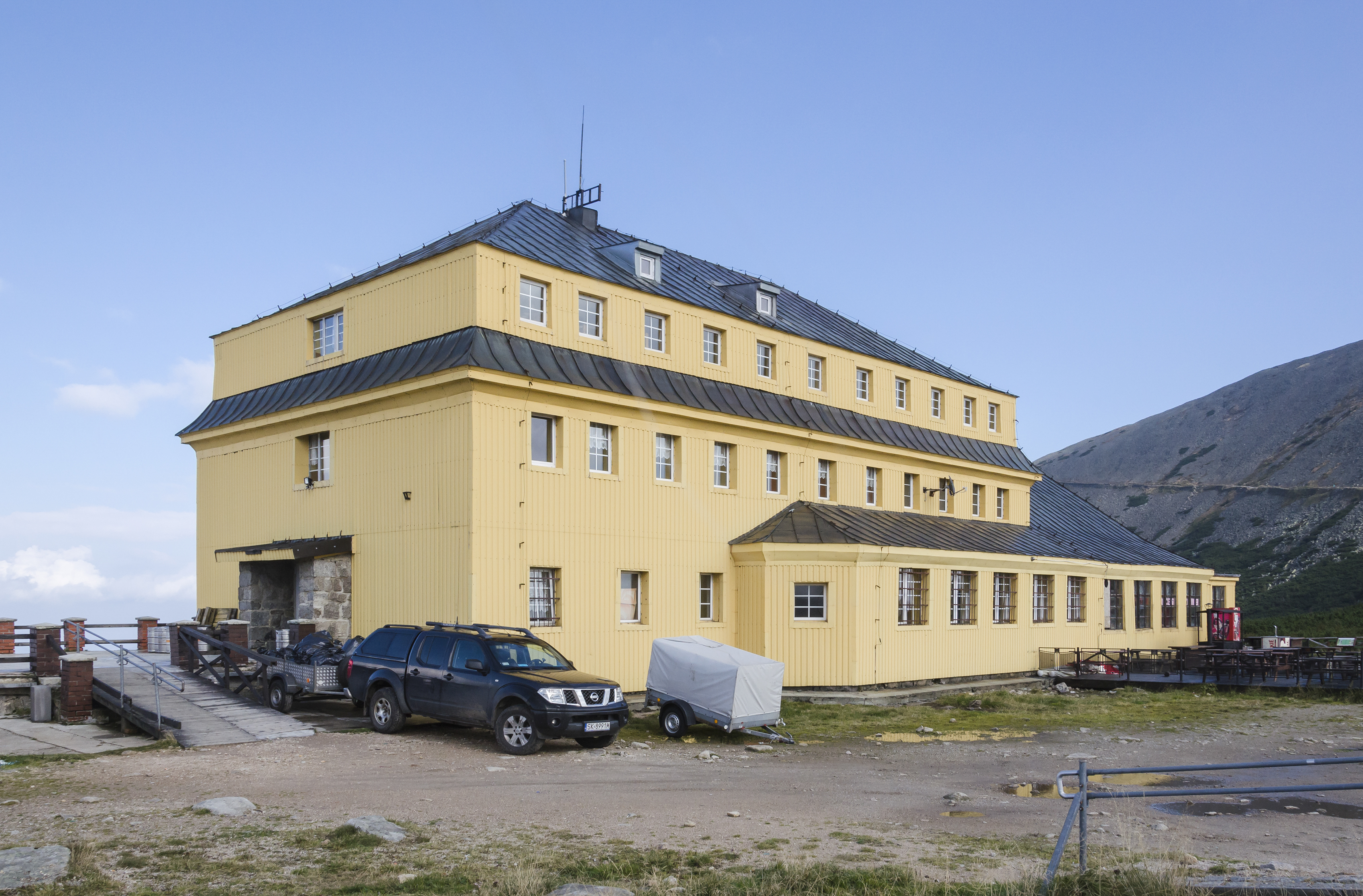 Shelter "Dom Śląski"